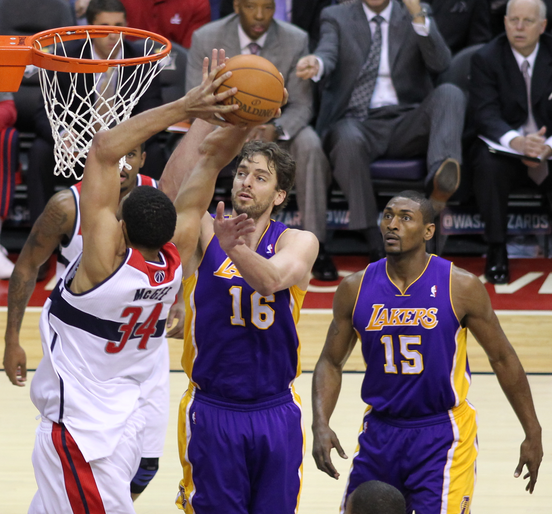 Lakers at Wizards March 7, 2012